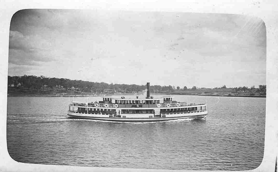 Sydney Ferry KARINGAL (built 1913) as a steamer pre mid 1930s This image forms part of the digitised photographs of the Ross and Pat Craig Collection. Ross Craig (1926-2012) was a local historian born in Stockton and dedicated much of his life promoting and conserving the history of Stockton, NSW. He possessed a wealth of knowledge about the suburb and was a founding member of the Stockton Historical Society and co-editor of its magazine. Pat Craig supported her husband’s passion for history, and together they made a great contribution to the Stockton and Newcastle communities. We thank the Craig Family and Stockton Historical Society who have kindly given Cultural Collections at the University of Newcastle, NSW, Australia, access to the collection and allowedus to publish the images. Thanks also to Vera Deacon for her liaison in attaining this important collection.Please contact Cultural Collections at the University of Newcastle, NSW, Australia, if you are the subject of the image, or know the subject of the image, and have cultural or other reservations about the image being displayed on this website and would like to discuss this with us.Some of the images were scanned from original photographs in the collection held at Cultural Collections, other images were already digitised with no provenance recorded.You are welcome to freely use the images for study and personal research purposes. Please acknowledge as“Courtesy of the Ross and Pat Craig Collection, University of Newcastle (Australia)" For commercial requests please consider making a donation to the Vera Deacon Regional History Fund.These images are provided free of charge to the global community thanks to the generosity of the Vera Deacon Regional History Fund. If you wish to donate to the Vera Deacon Fund please download a form here: you have any further information on the photographs, please leave a comment.